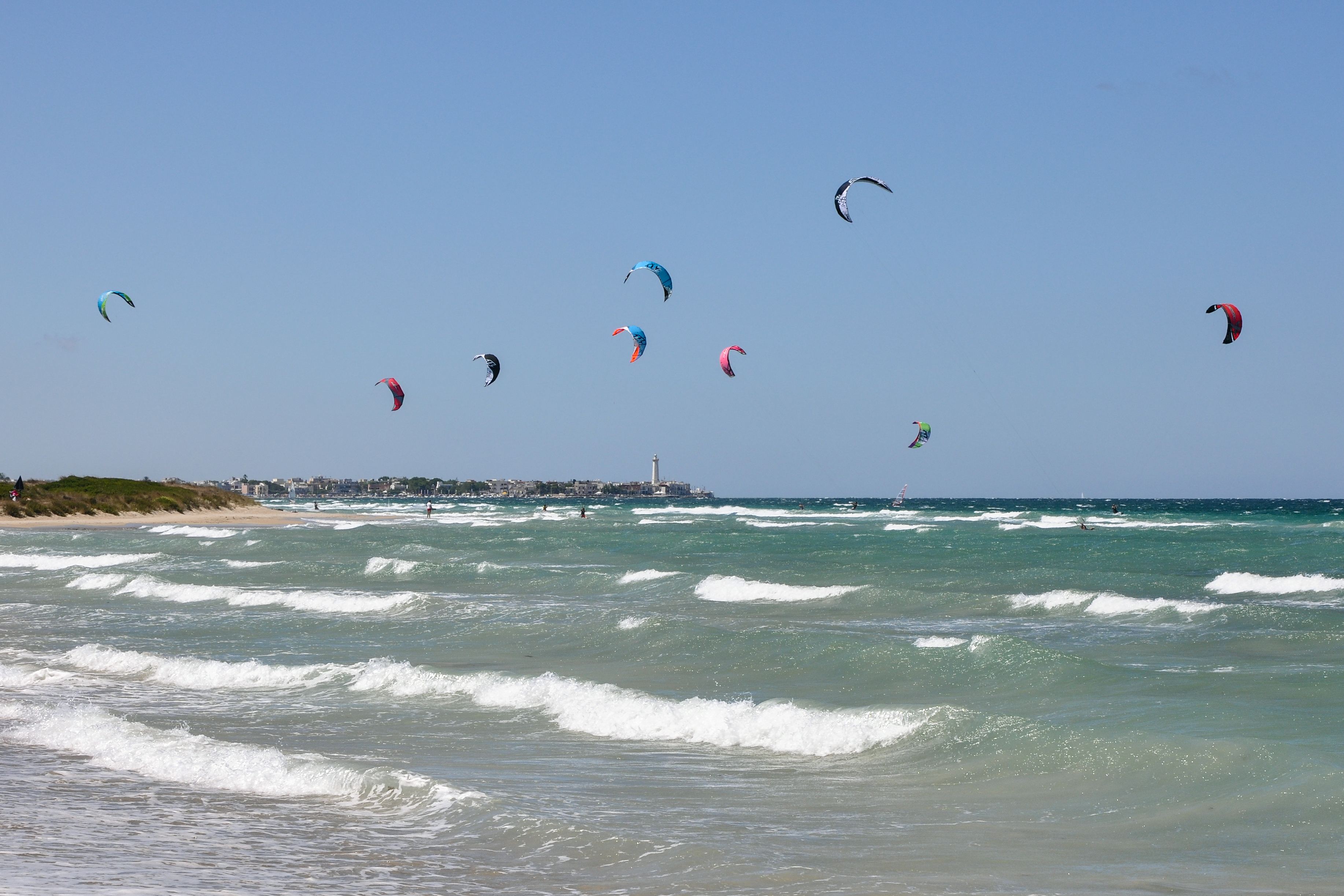 Kitesurfs - Torre Canne, Brindisi, Italy